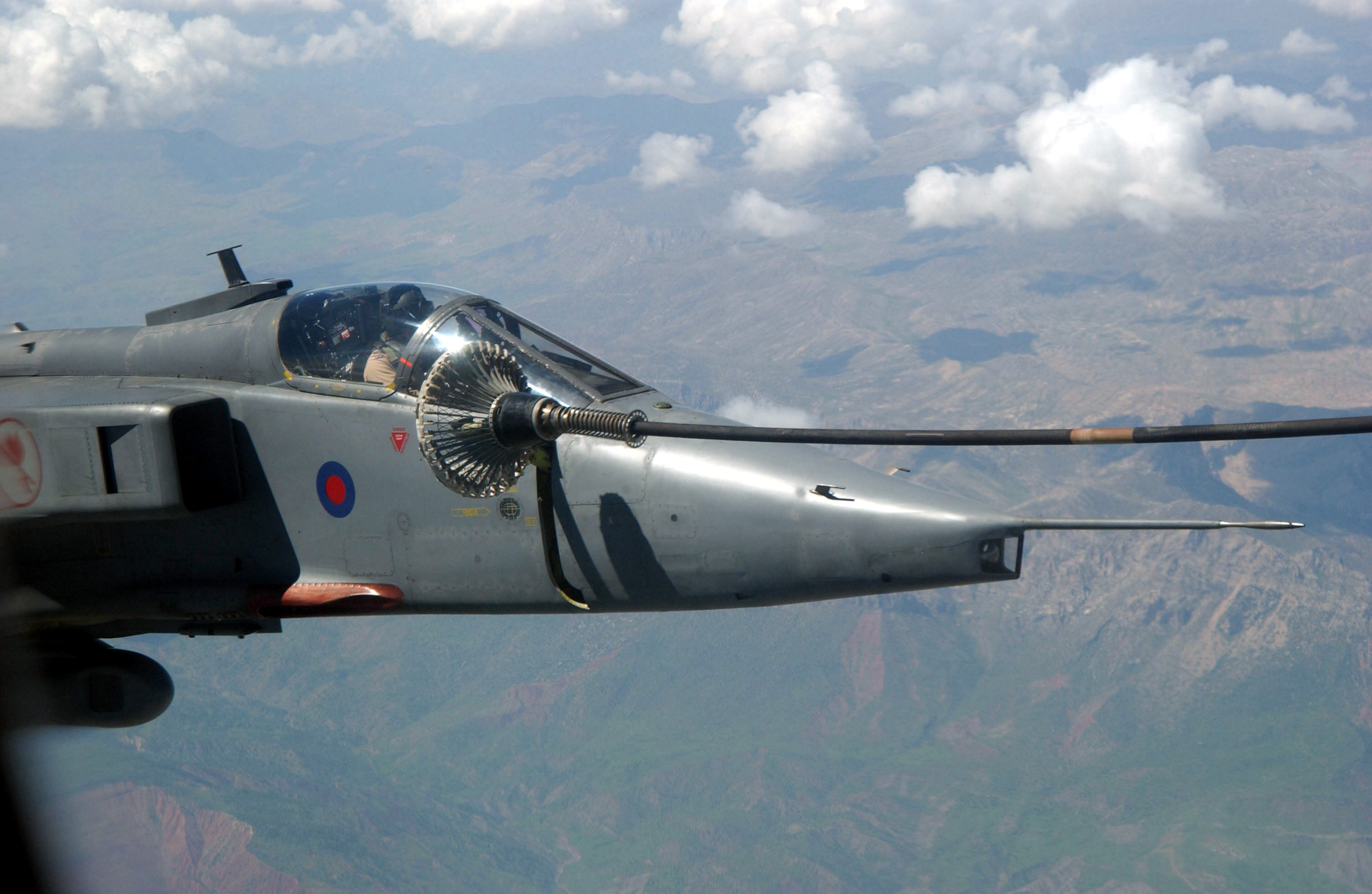 A Royal Air Force (RAF) GR3A Jaguar aircraft connects to the refueling drogue from a RAF VC-10 Extender aircraft during a mission over Incirlik Air Base (AB), Turkey, in support of Operation NORTHERN WATCH.